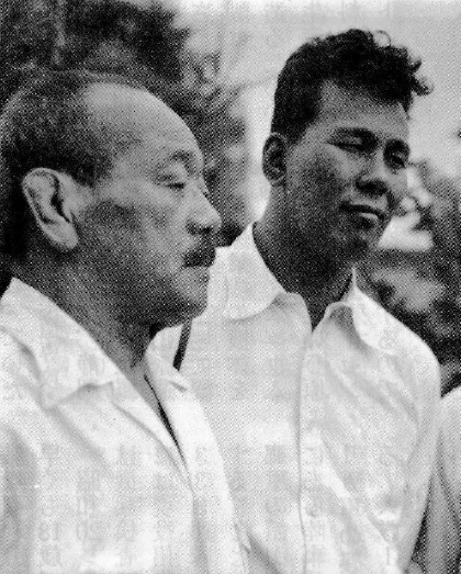 Japanese judoka, Hideichi Nagaoka(left) and Toshirō Daigo(right).